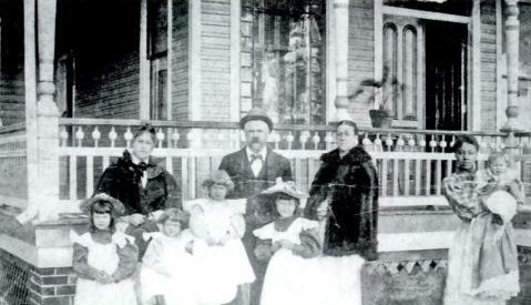 Nebraska House in 1890s at Appomattox, Virginia